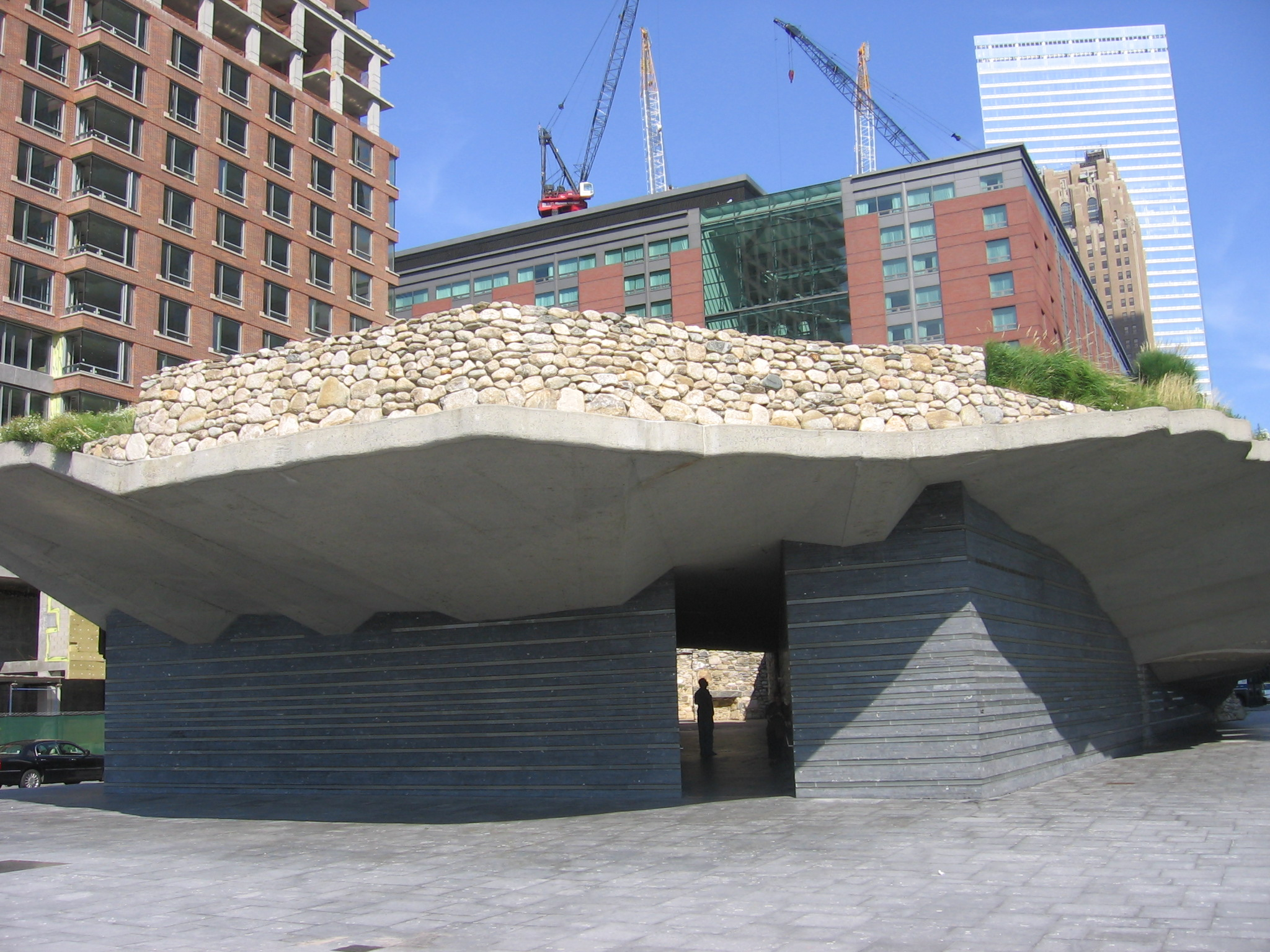 Irish Hunger Memorial